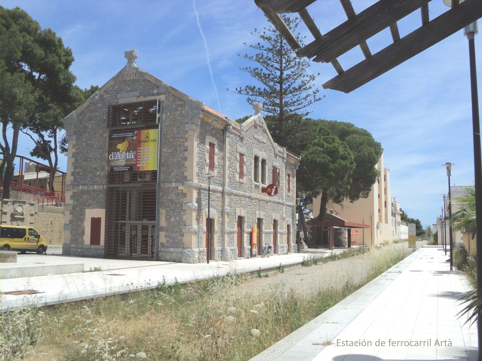 Artà train station